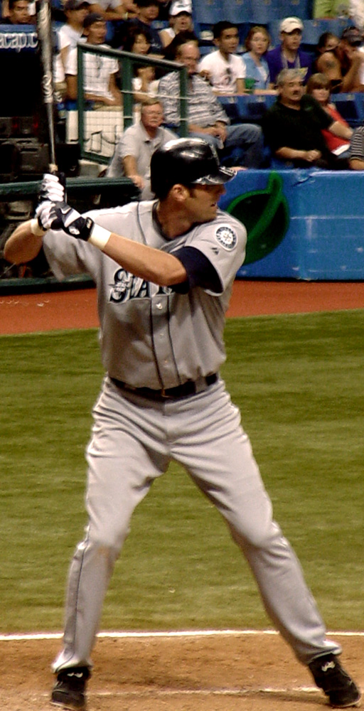 Richie Sexson awaits a pitch, May 2005. Photo by Googie Man. 02:40, 30 May 2005 . . Googie man . . 512×1000 (244,090 bytes)